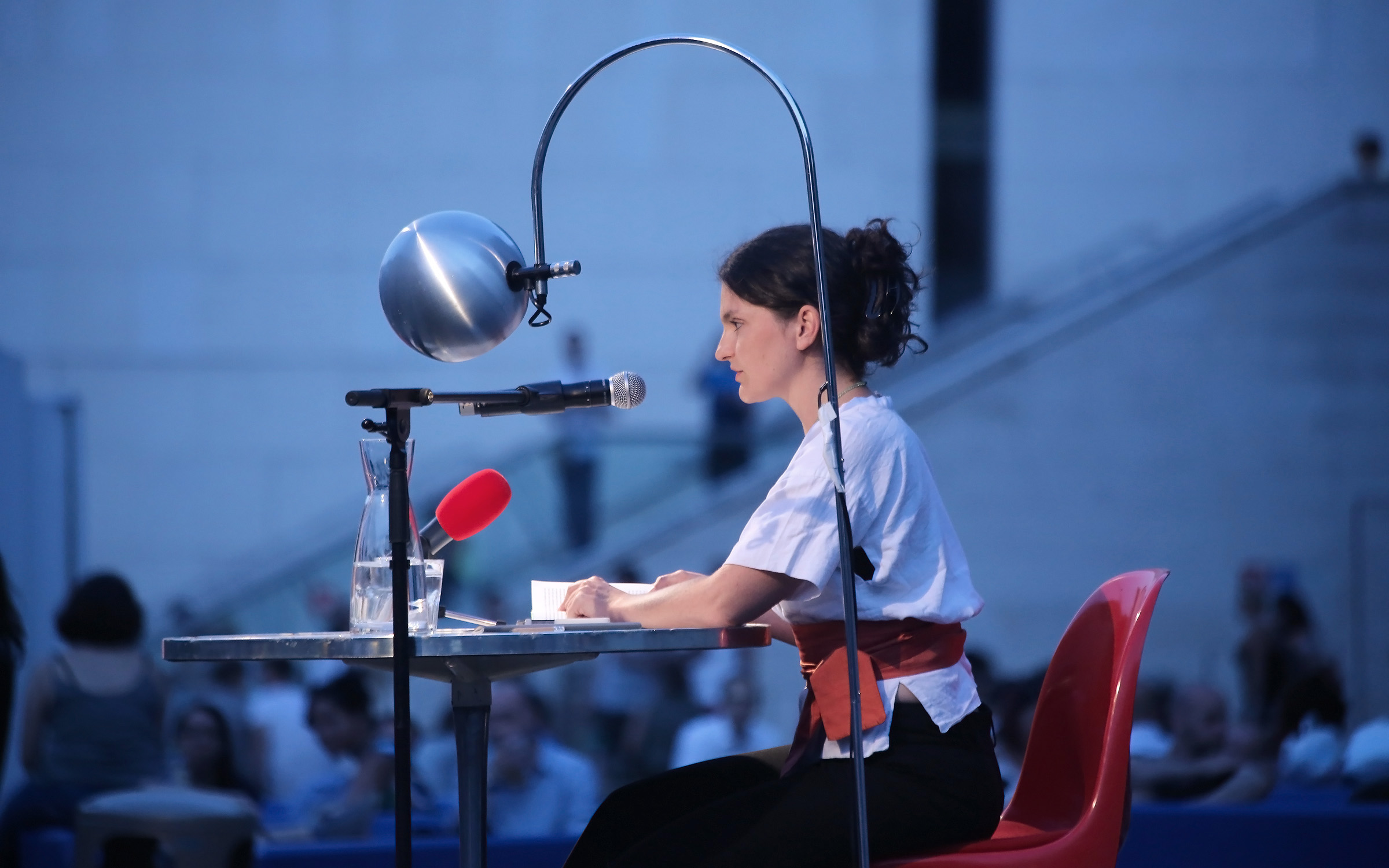 Barbara Aschenwald reading from her novel 'Omka', o-töne 2013 at Museumsquartier in Vienna.